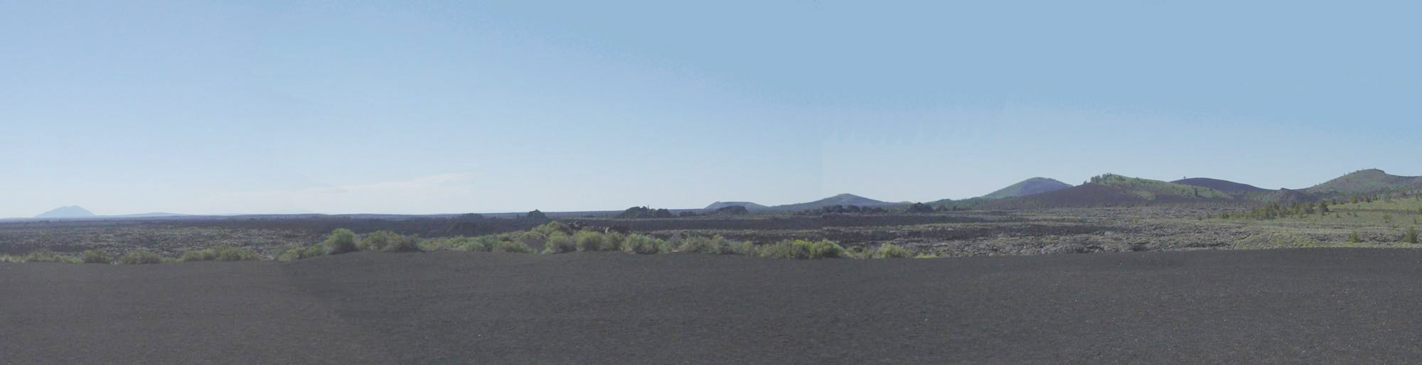 Craters of the Moon National Monument, Idaho, USA